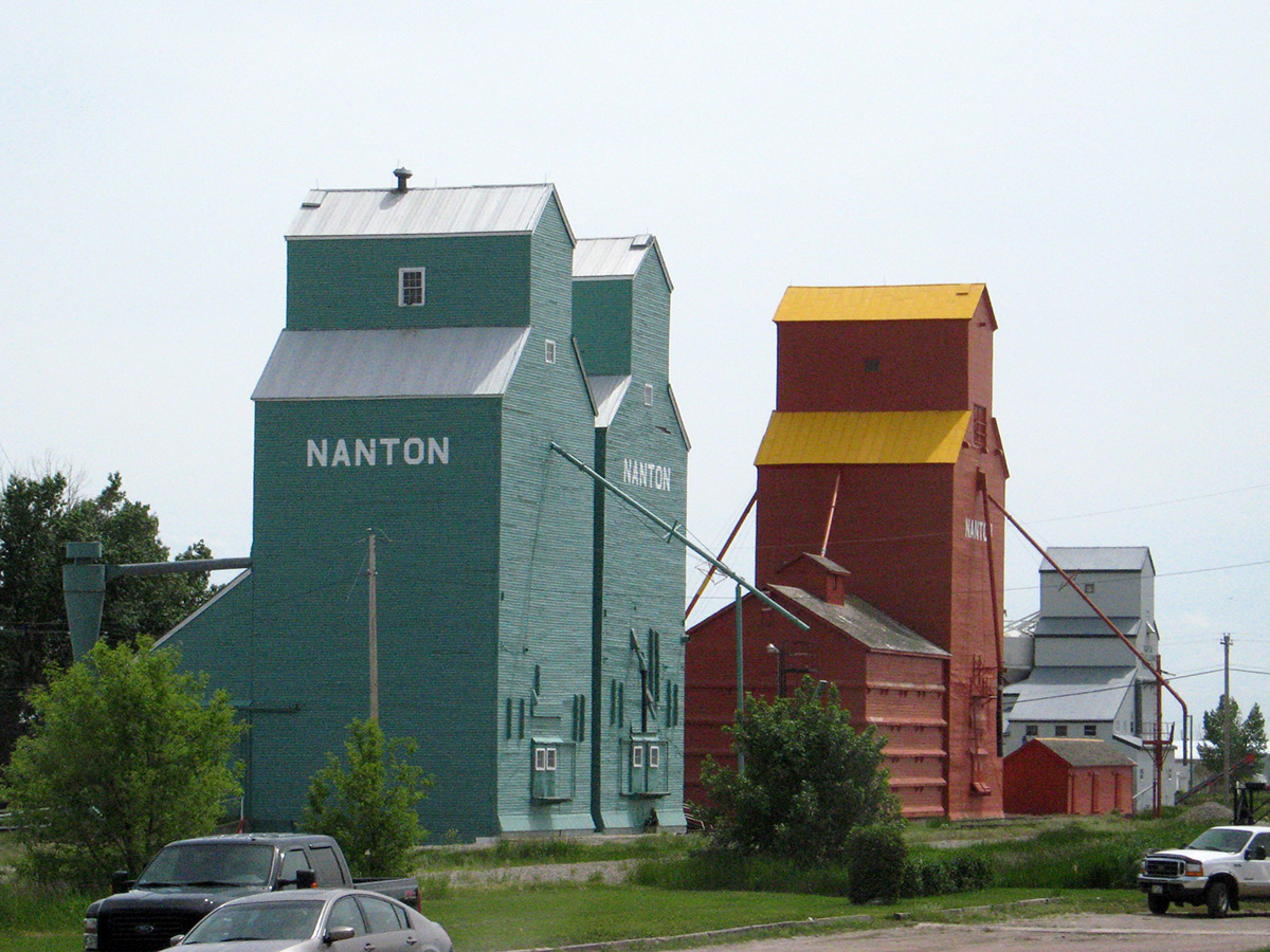 Two grain elevators in Nanton, south of Edmonton, Alberta, Canada